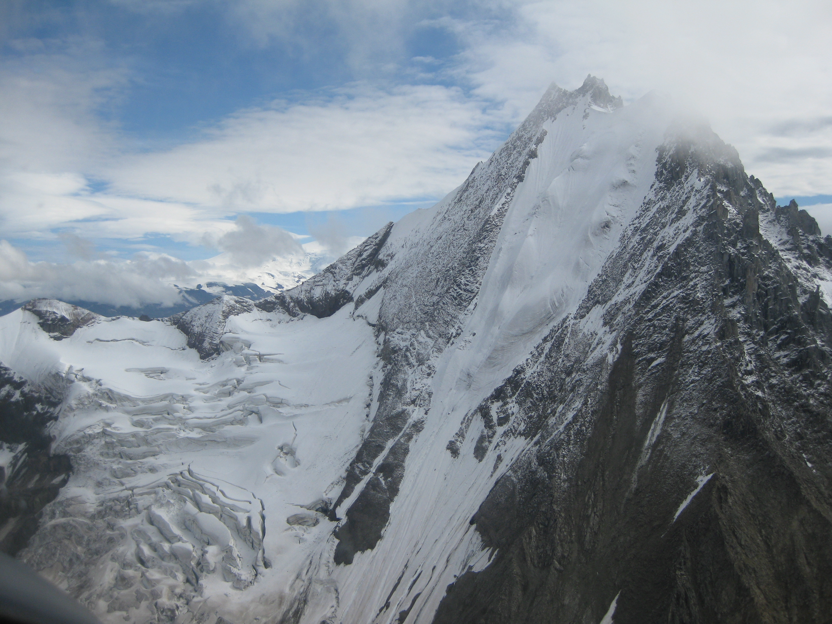 Aerial view of Snider Peak